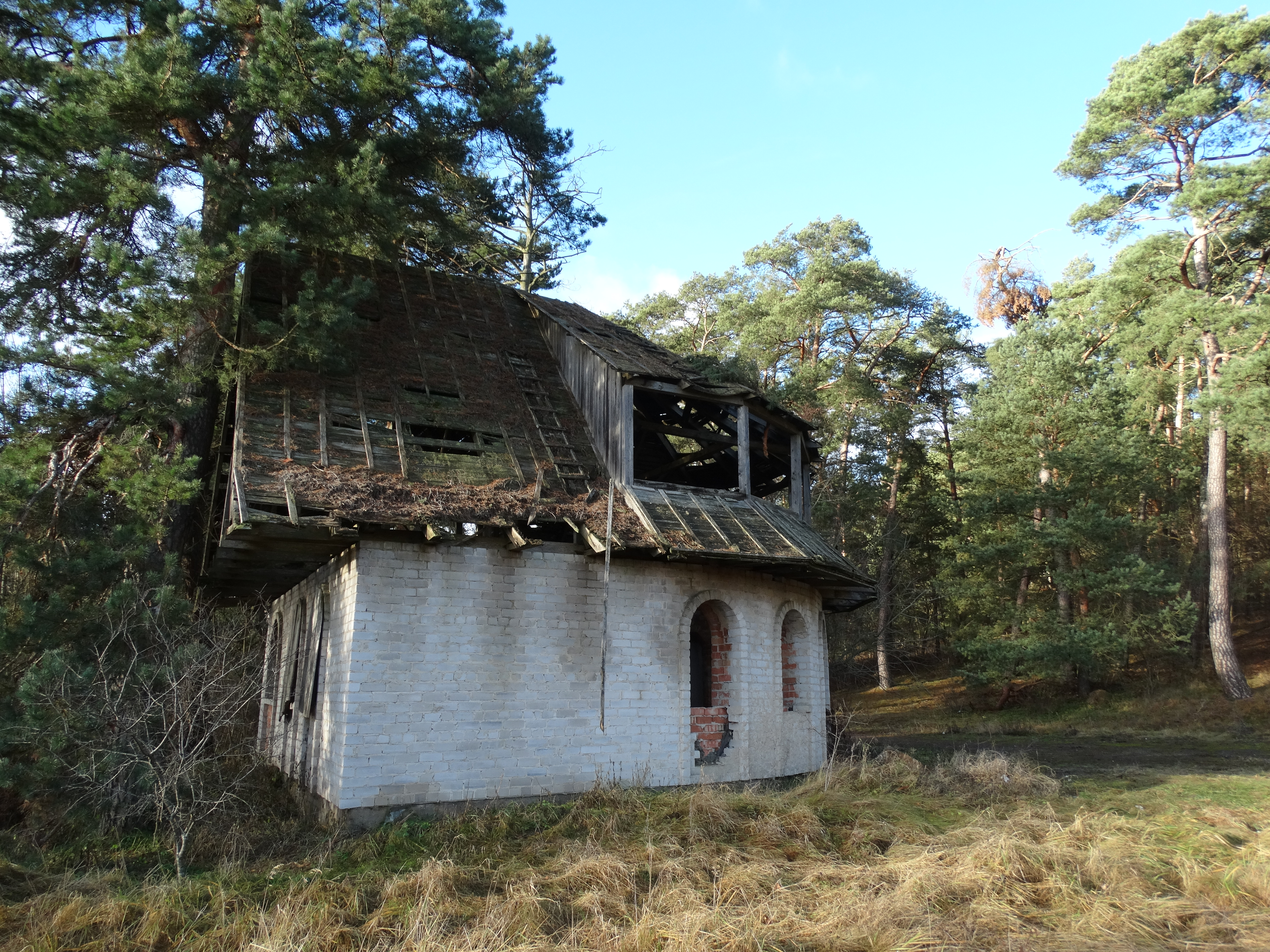 Naujokai, Jurbarkas district, Lithuania